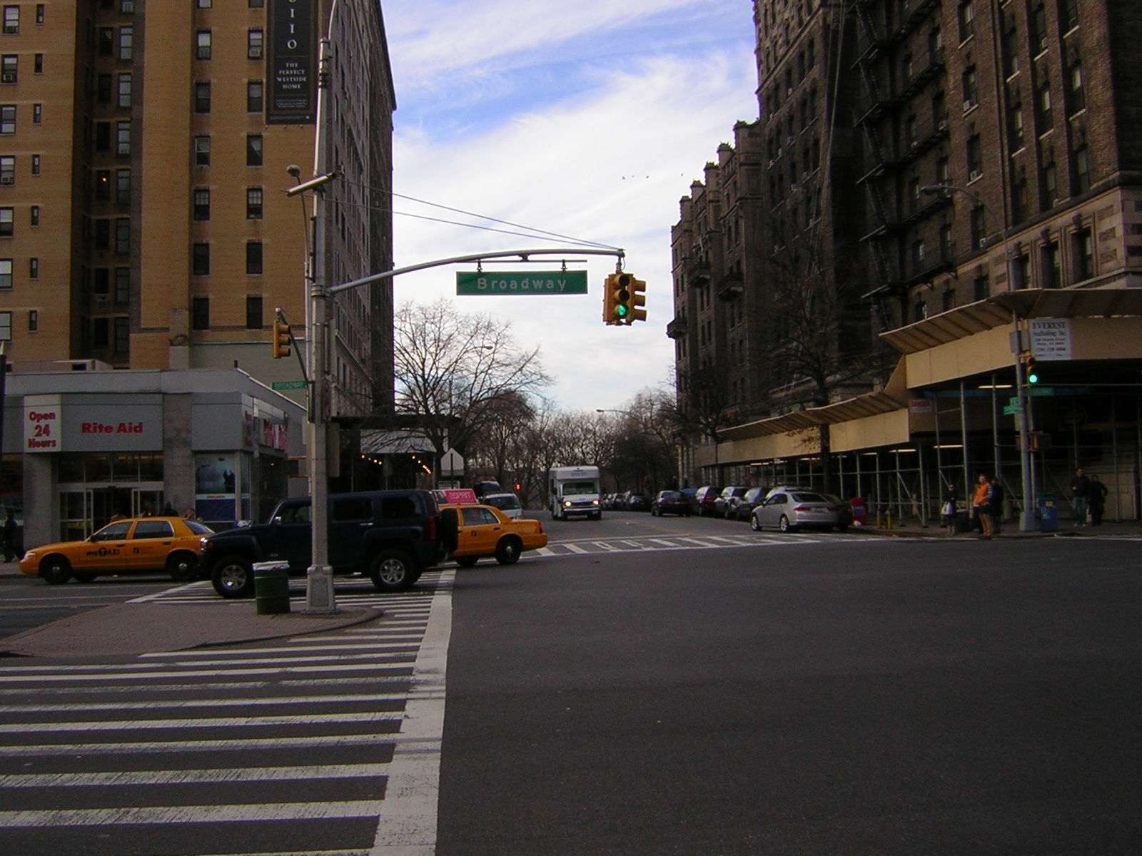 Looking west along 110th Street (Manhattan) from Broadway towards Riverside Park (Manhattan) on a warm afternoon.